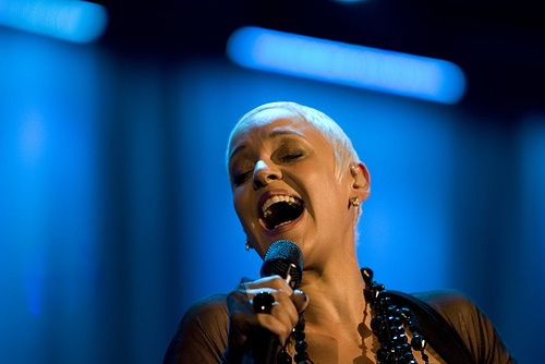 Mariza at Pavilhão Atlântico, LisbonMariza